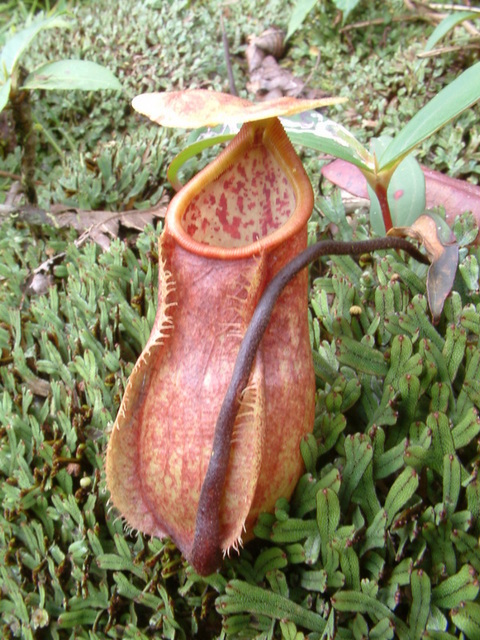 Nepenthes papuana from Western New Guinea (~1300 m asl)